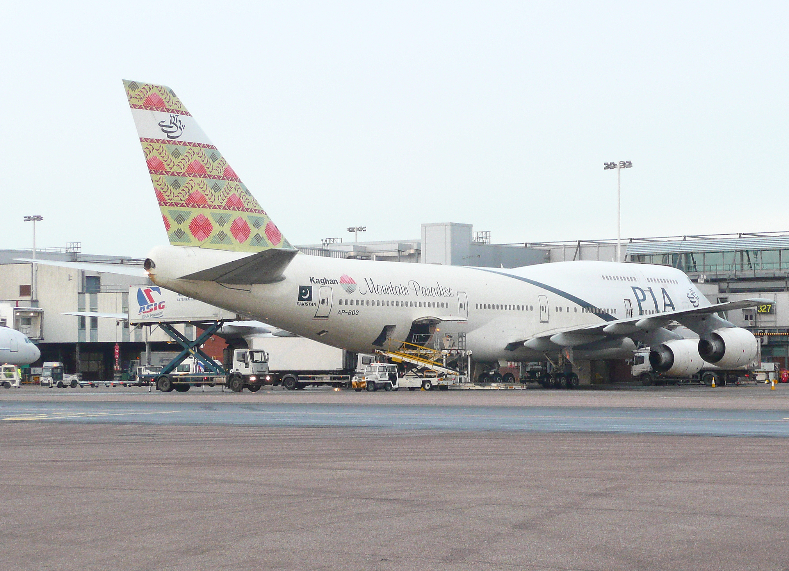 AP-BGG B743 PIA on std 327.